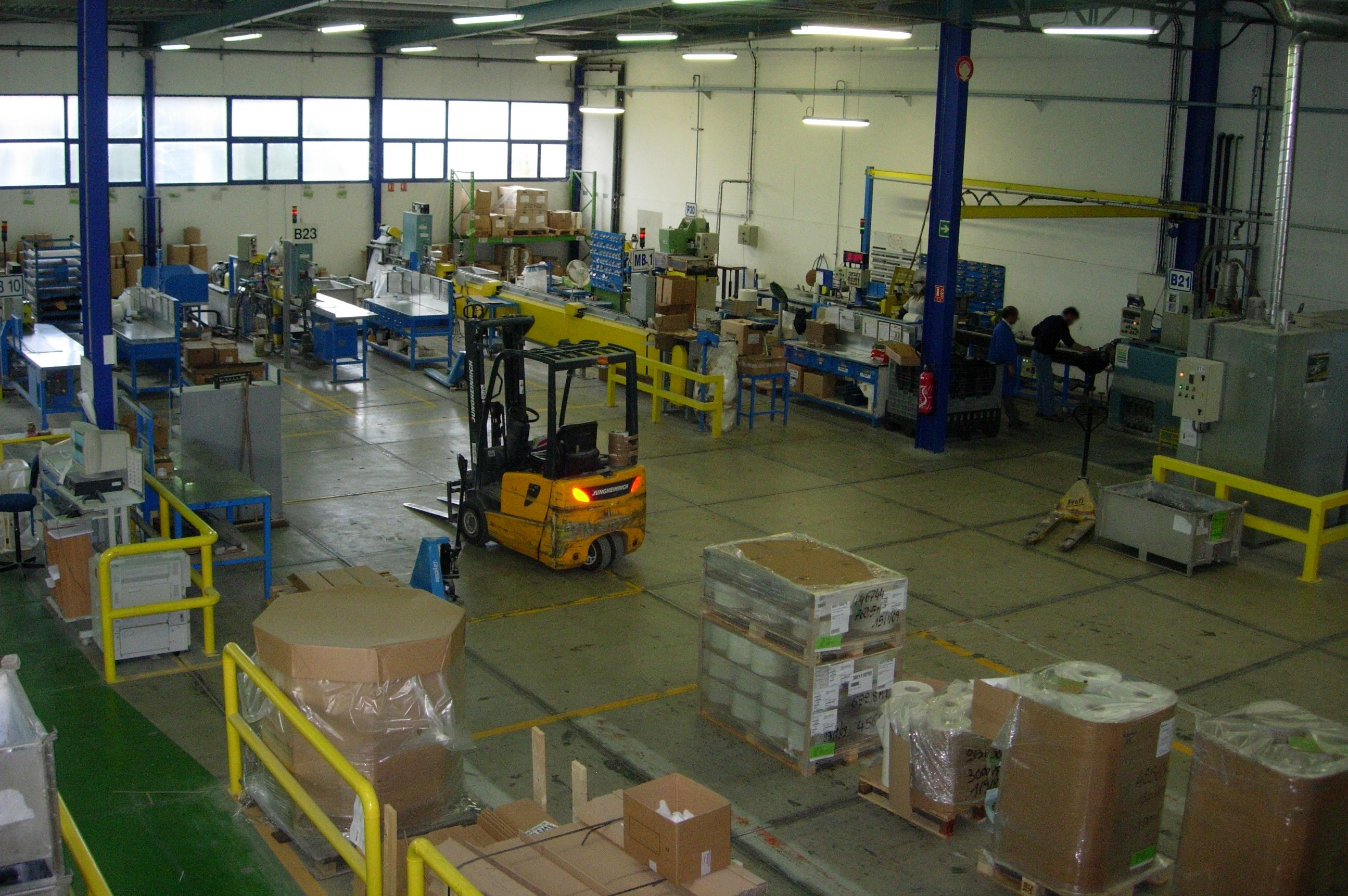 Extruders in a plastic workshop.